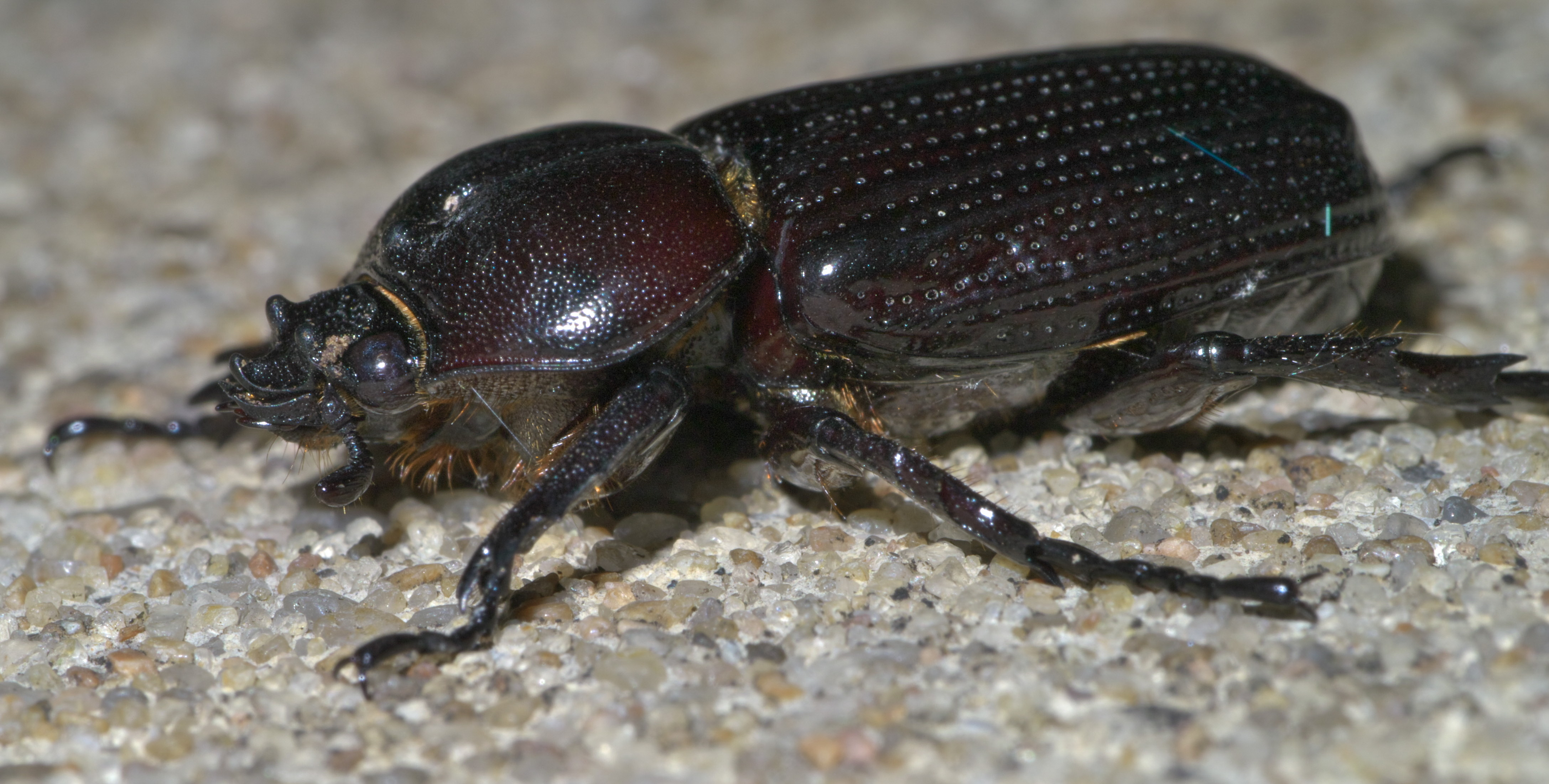 Phileurus valgus, Subfamily: Rhinoceros Beetles, ID Confidence: 90